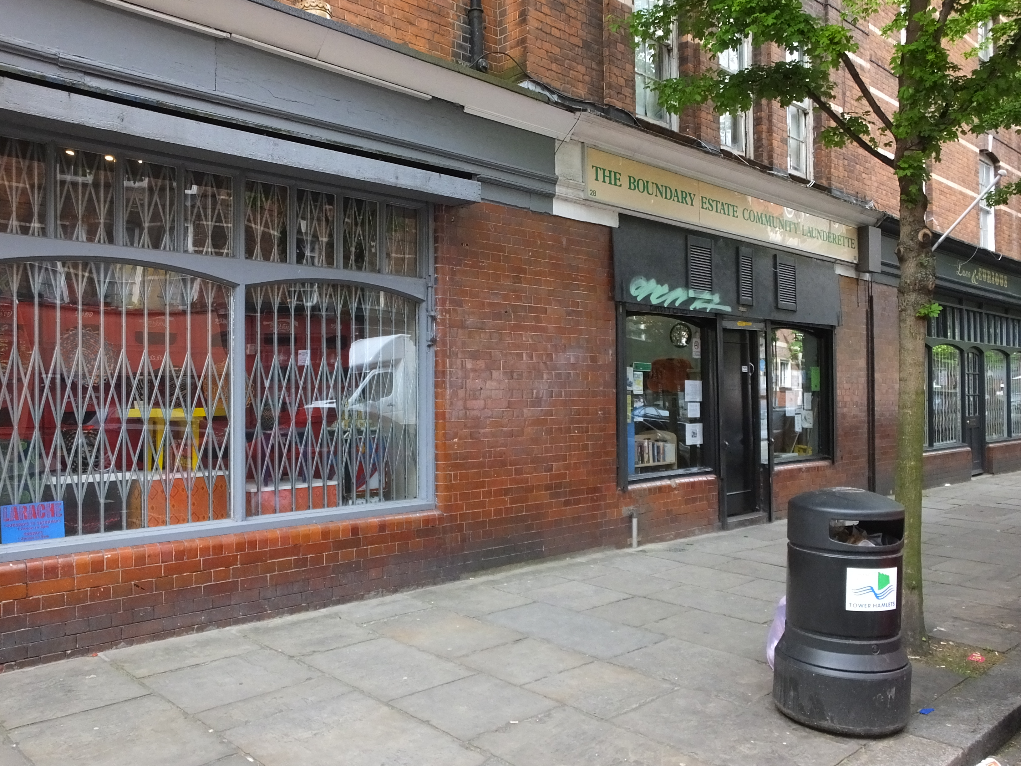 The Boundary Estate centres on Arnold Circus. Using the powers of 1890 Housing Act, LCC Housing of the Working Classes Branch cleared the Old Nichol slum. The radiating roads are Hocker Street, Palissy Street, Rochelle Street, Club Row, Camlet Street, Navarre Street, and Calvert Street. All the tenement blocks were designed specifically for the brief. The work started in 1893 and was finished in 1900 and housed 4600, it became the model for many later estates. It is claimed to be the first council estate. (More images) Boundary Estate Community Launderette Calvert Street